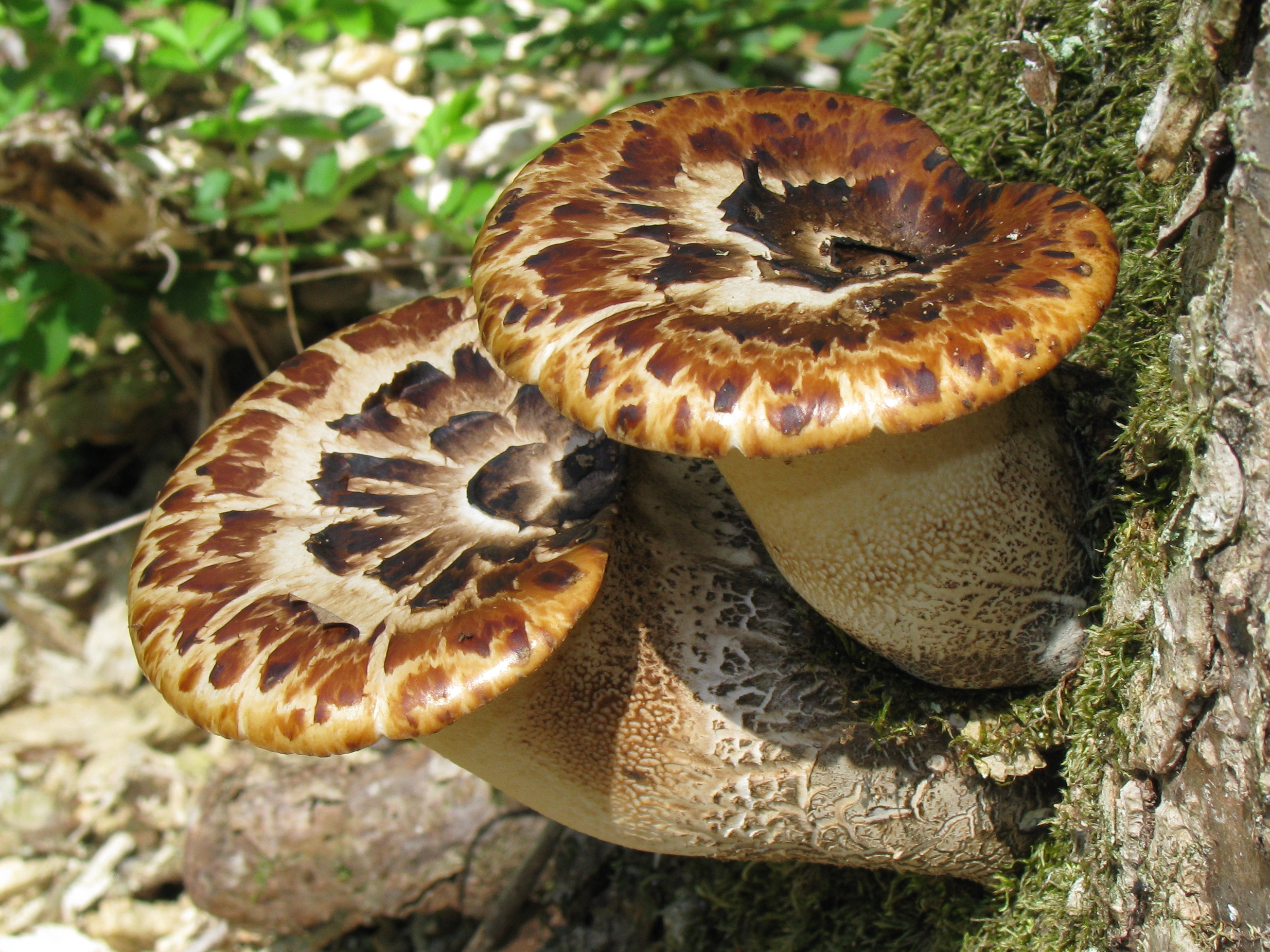 The mushroom Polyporus squamosus Huds. ex Fr. Photographed in Kinderhook Trail, Wayne National Forest, Ohio, USA. "Notes: On standing dead elm."